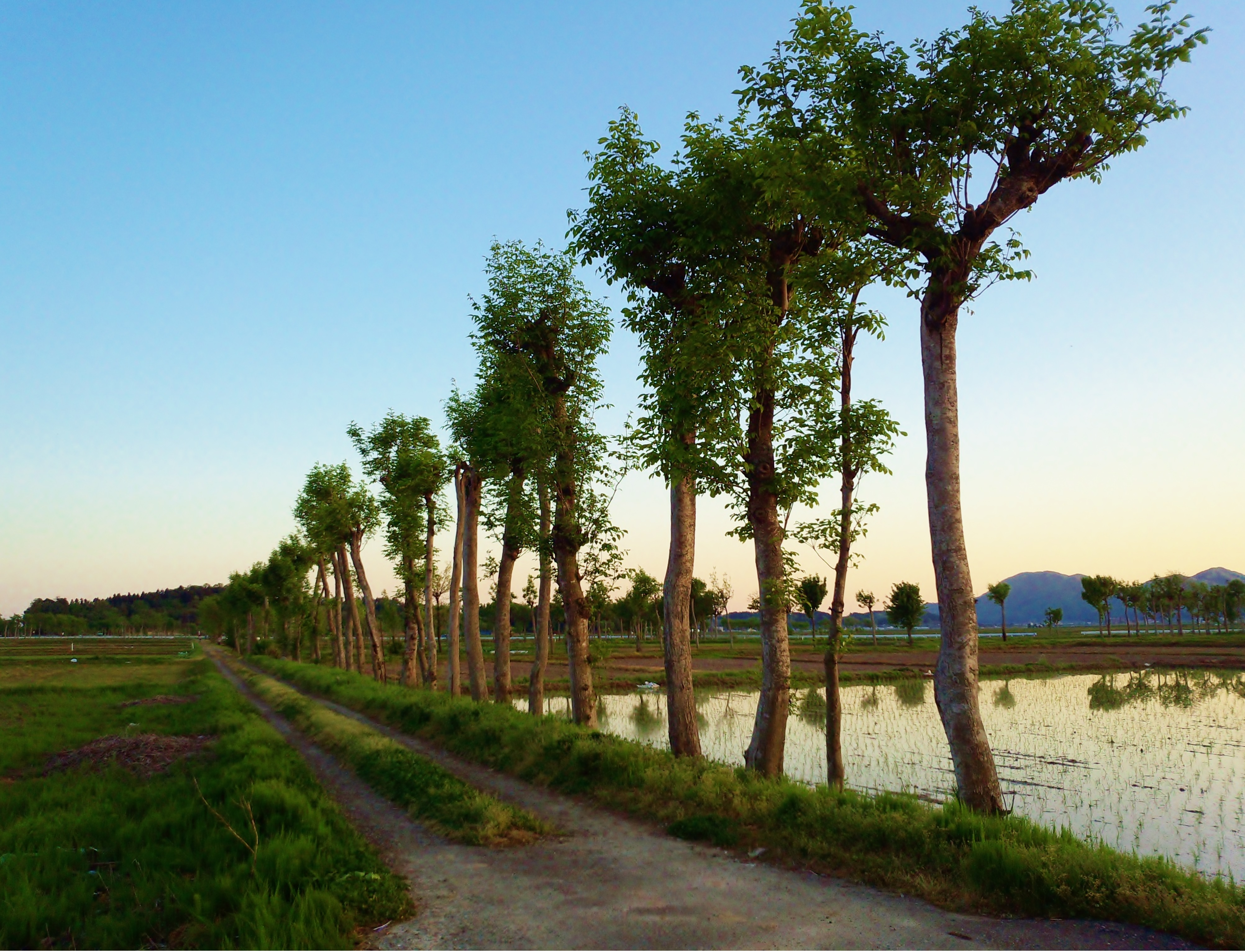 Hazagi,Niigata-city,Niigata,Japan